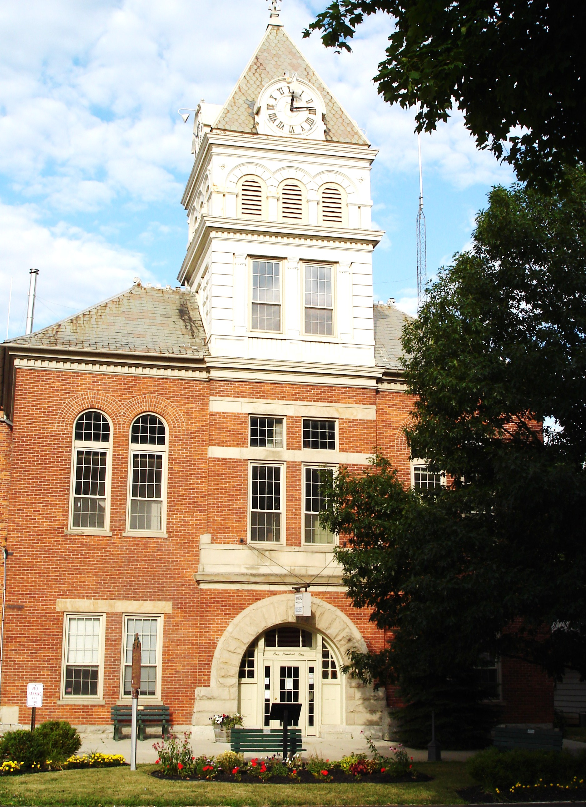 Richwood Police Headquarters